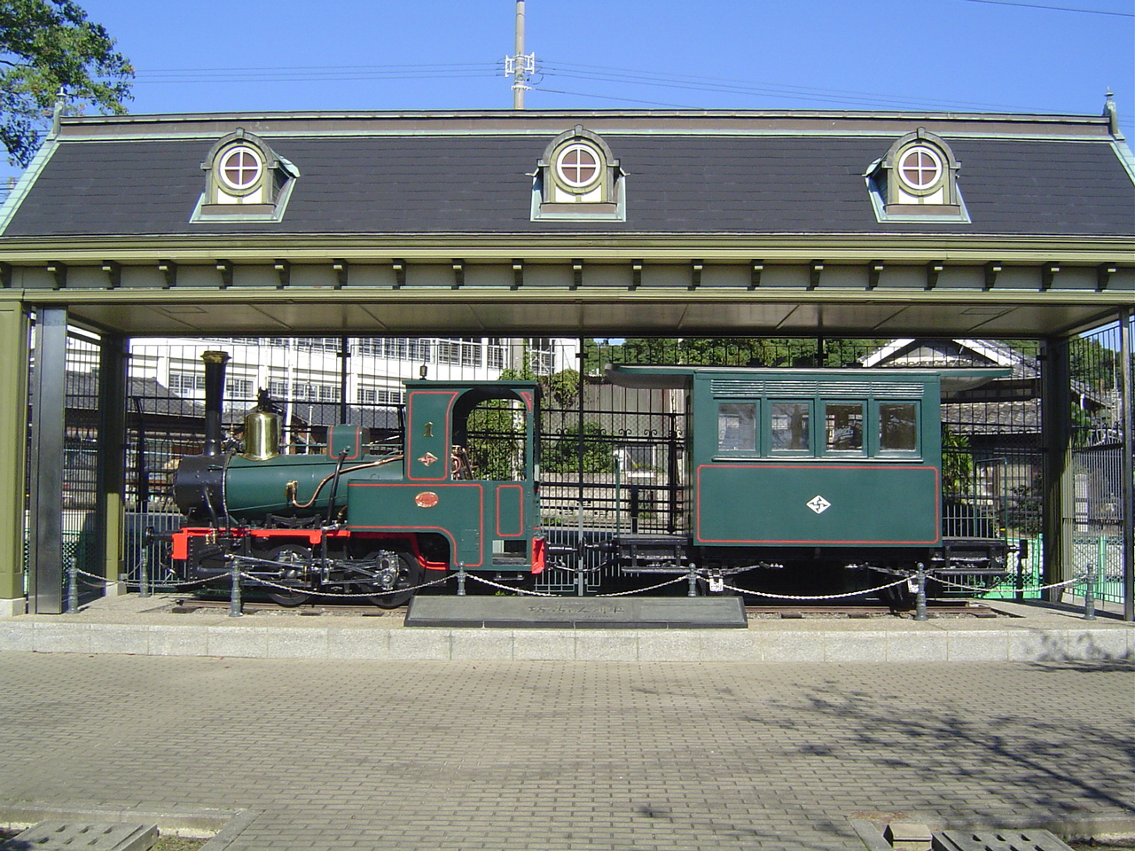 Iyo Railway "Botchan Train (Original)". This photo was taken at Baishinji-Park (Ehime)